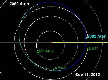 Orbital diagram of the Aten asteroid, with location as of September 11, 2013